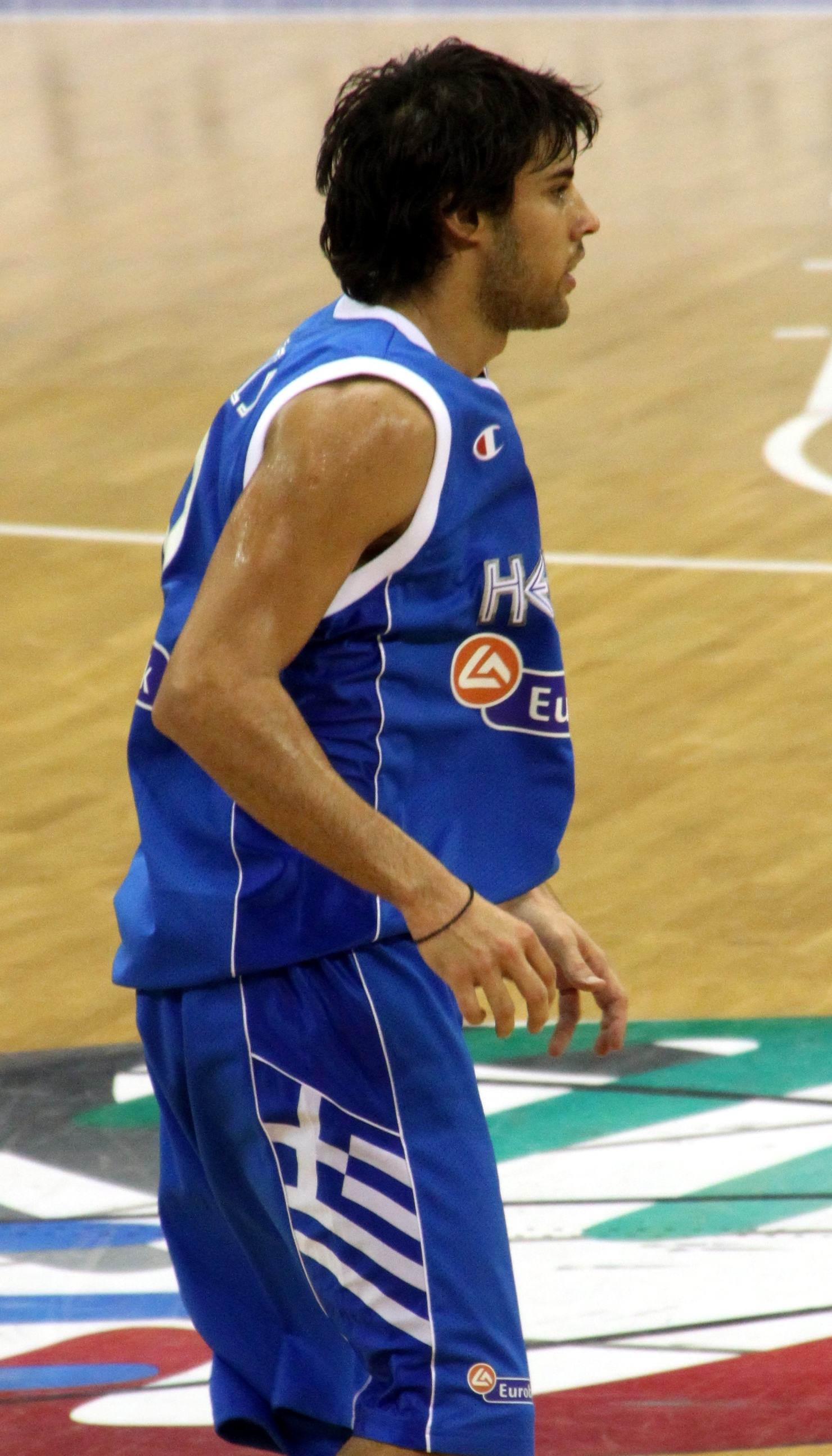 The Power Forward of the Greek basketball team, Georgios Printezis [Israel 80-106 Greece, Eurobasket 2009, Poland]